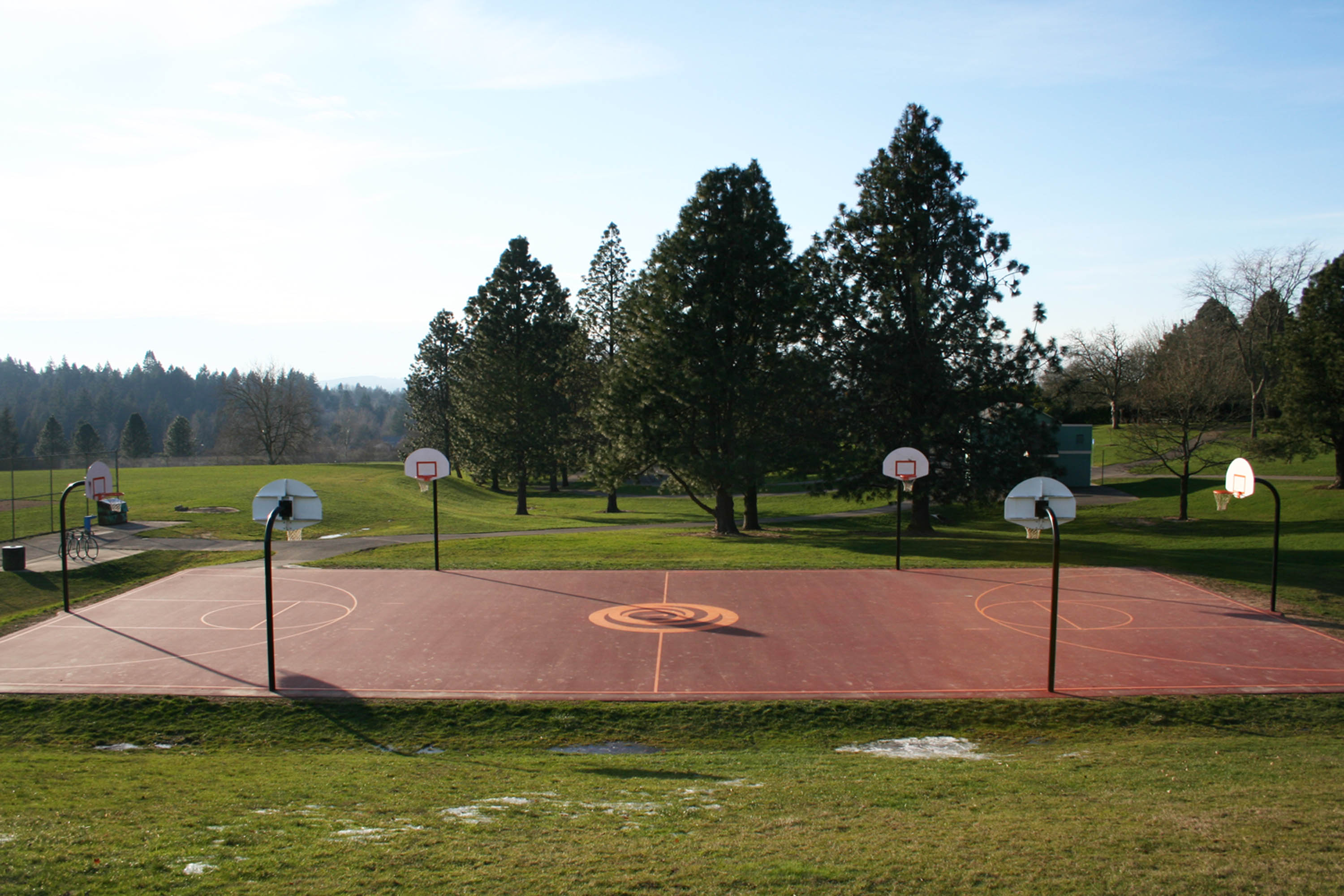 The Gabriel Park Basketball court